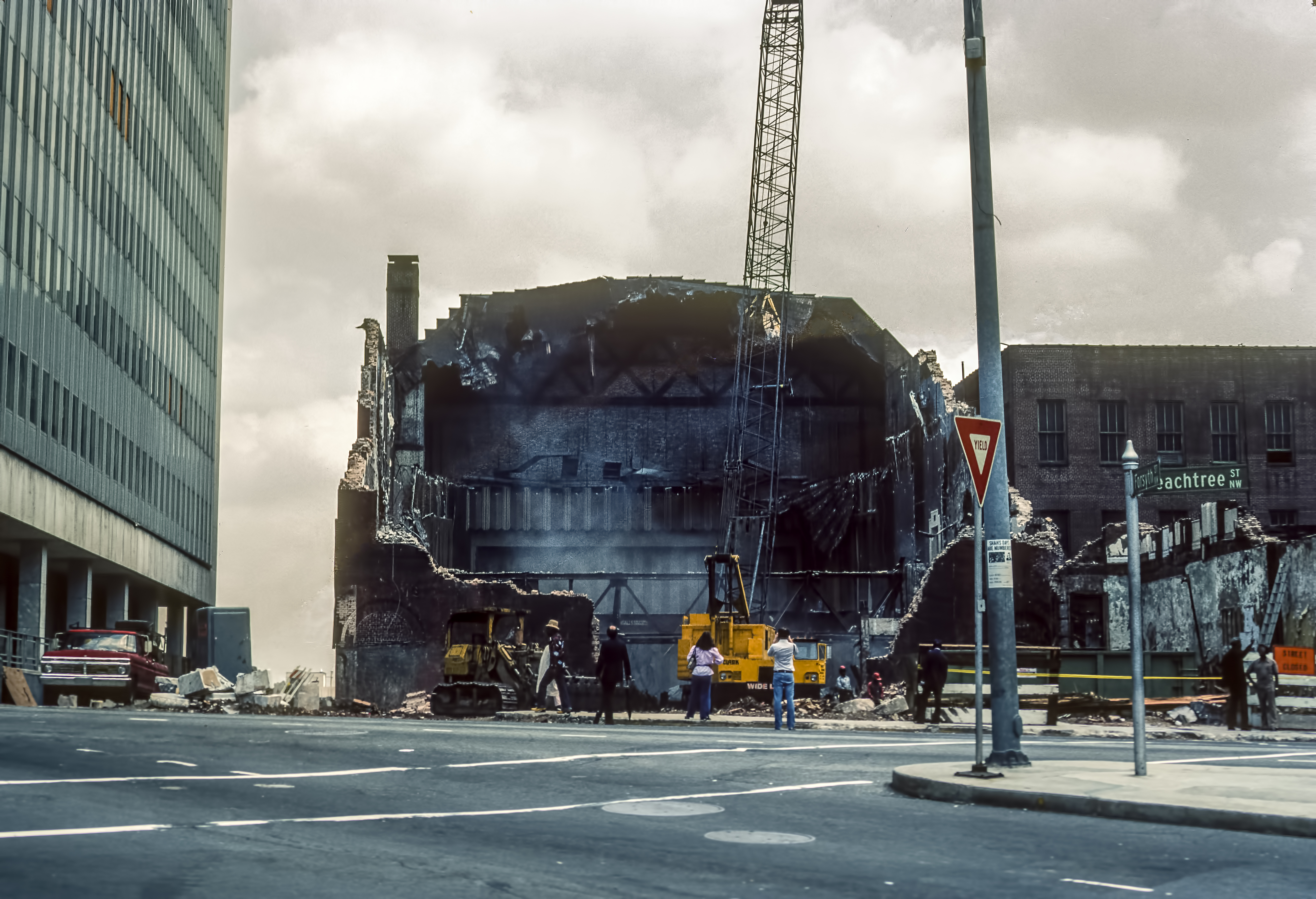 The wreckage of the Loews Grand Theater, Atlanta, Georgia, USA after the fire that destroyed the cinema. Scanned Kodachrome slide.